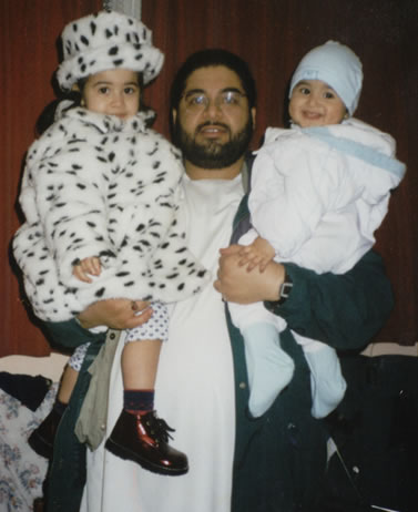 A photograph of Shaker Aamer with his two children.